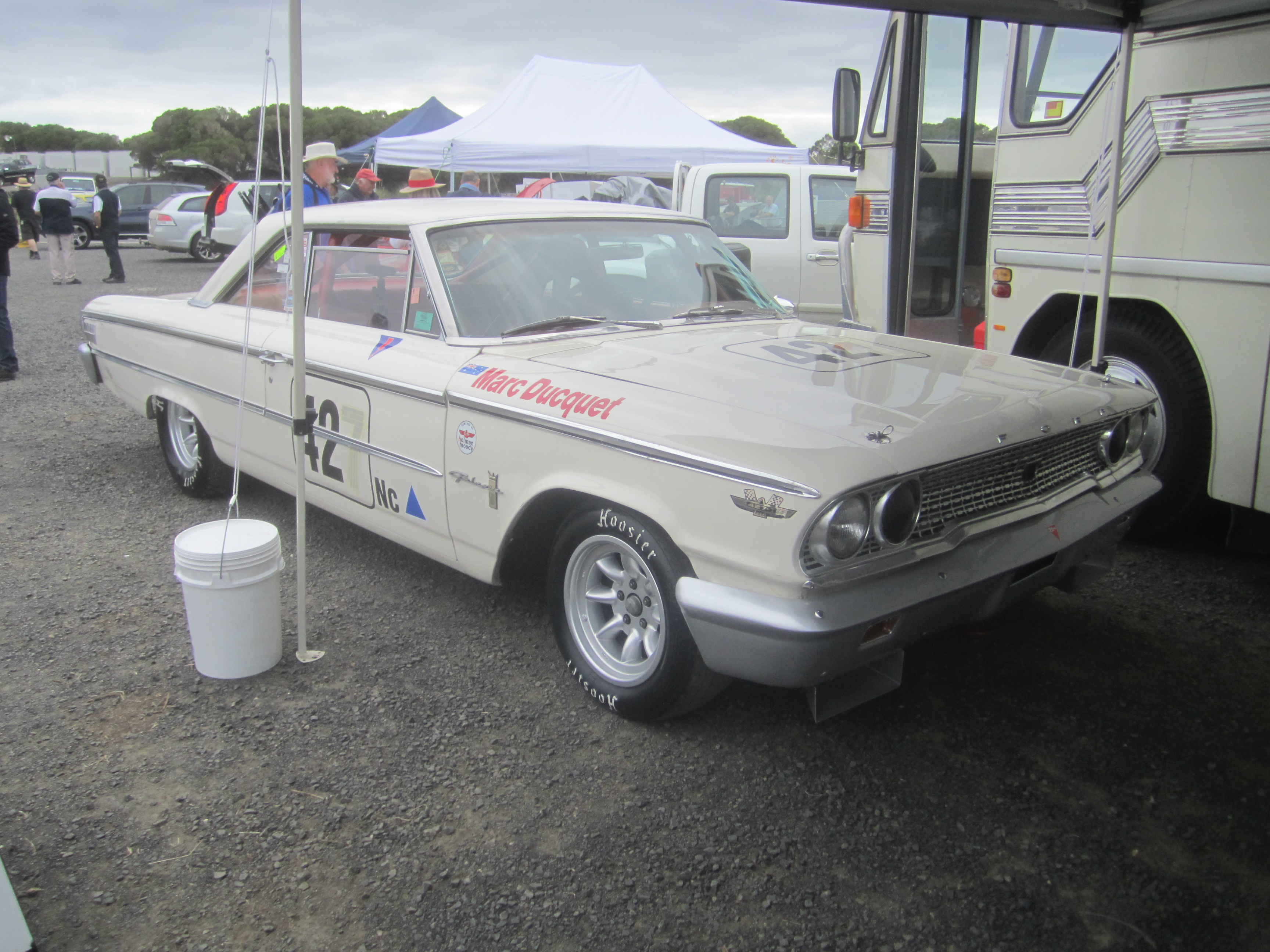 In mid 1963 a better looking Galaxie fastback with a lower roofline was introduced. It was also more aerodynamic, ideal for NASCAR for which it was destined. 212 Corinthian White with red interior R Code lightweight Galaxie 500 Sport Special fastbacks were made. They got Fords new 425hp 427 V8 with 2 4 bll carbys and solid lifter camshaft, Borg Warner T10 4 speed, heavy duty suspension and brakes. They had fibreglass hood, trunk lid and front fenders, aluminium bumpers and transmission case.